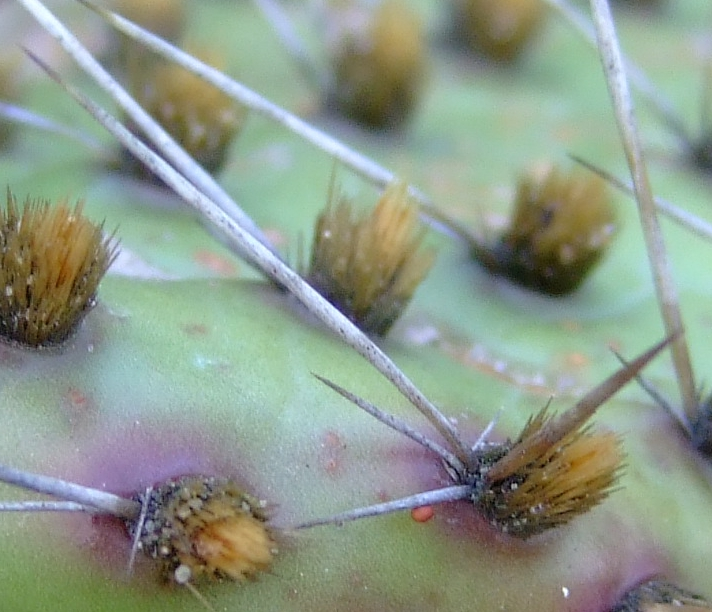 Opuntia howeyi detail - spines and glochids